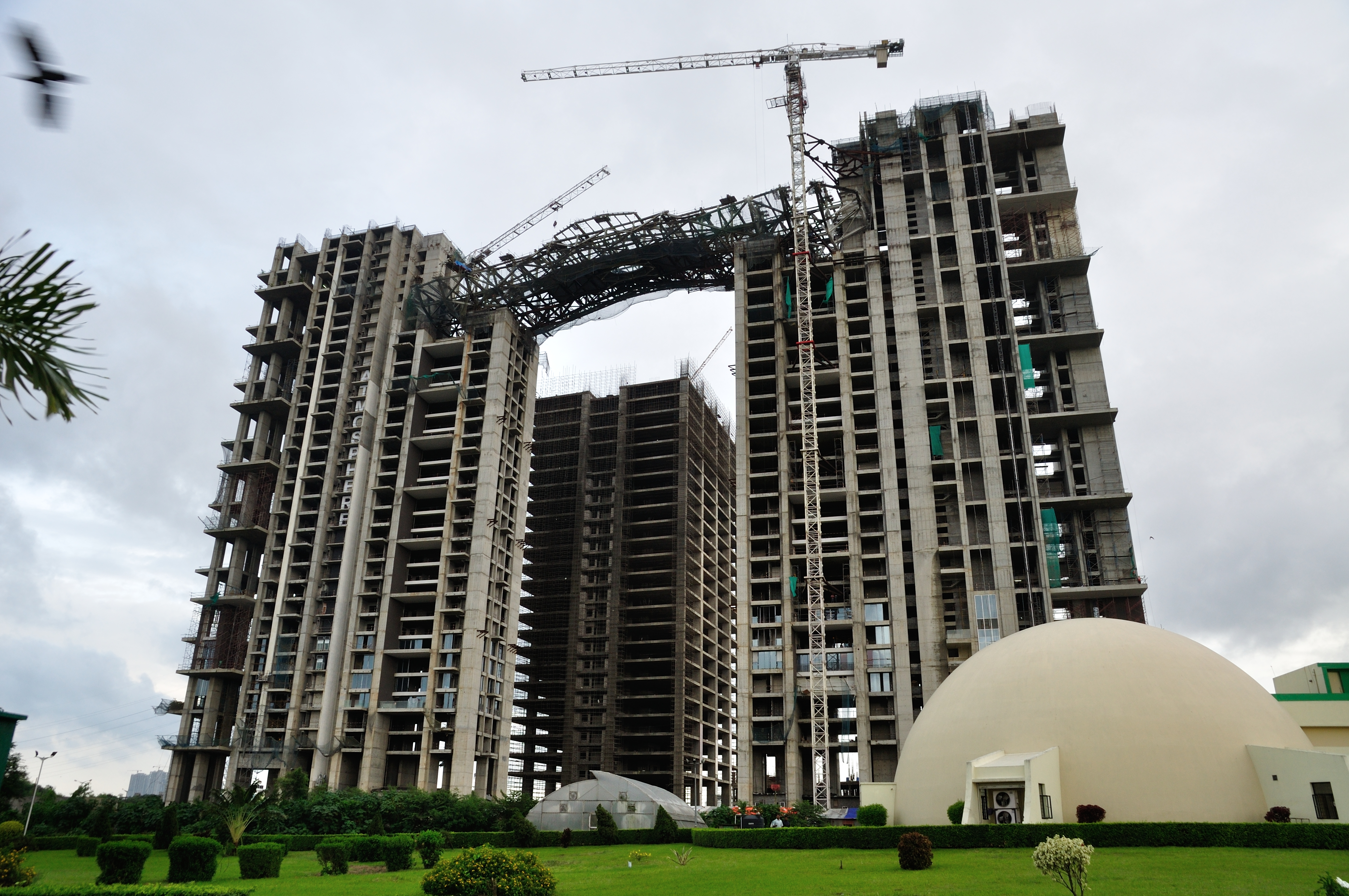 Photographed in Kolkata.